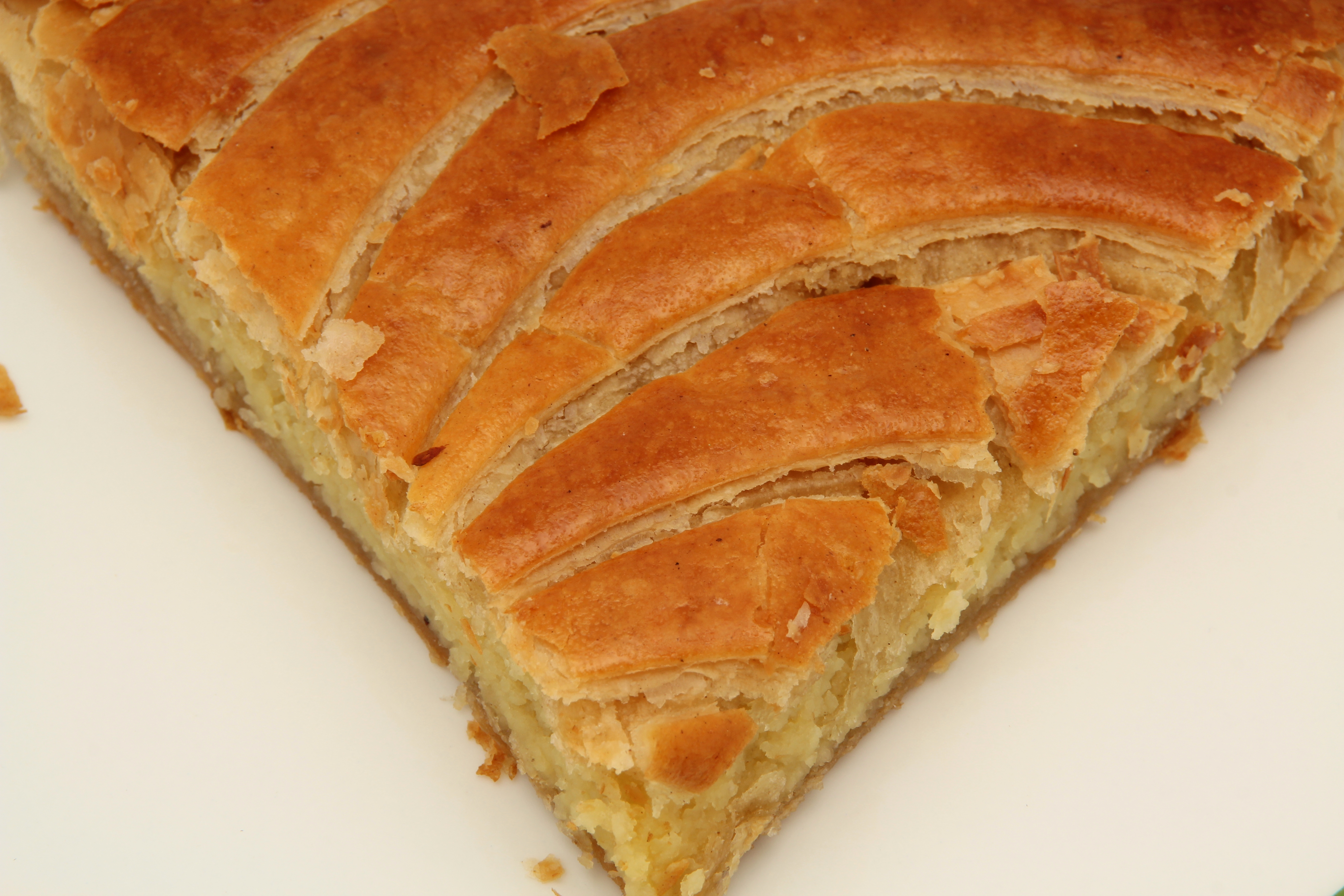 King cake.